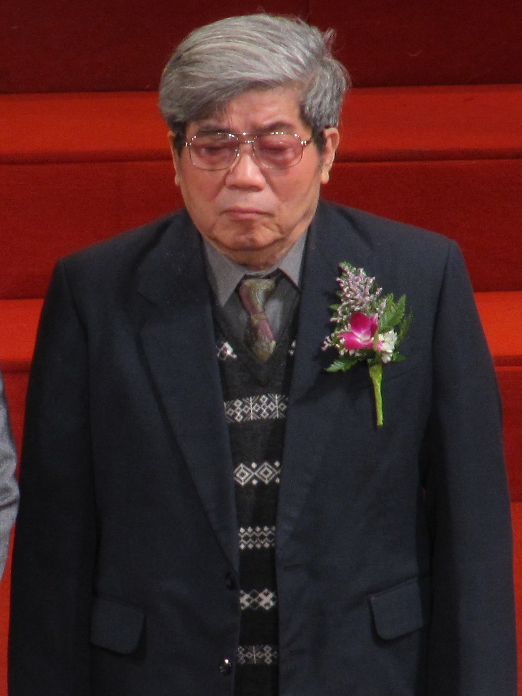 Hà Minh Đức, professor, recipient of the 2010 Ho Chi Minh Prize for Science & Technology